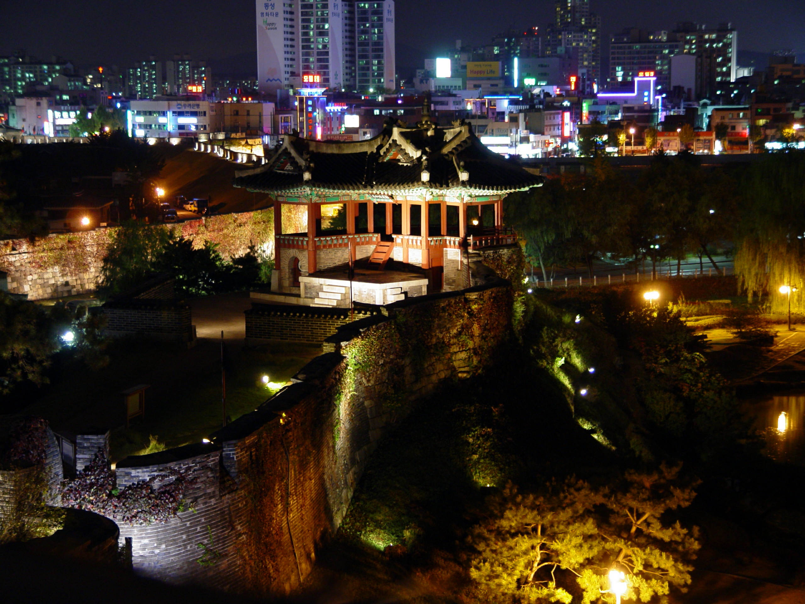 Nighttime view of Banghwasoryujeong, Hwaseong Fortress, Suwon, South Korea